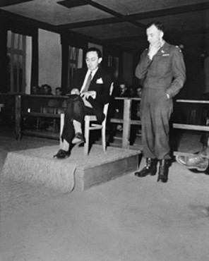 Dr. Norbert Freed, a Czech doctor of philosophy and a survivor of Dachau, examines a piece of evidence at the trial of former camp personnel and prisoners from Dachau. Prosecuting attorney Lt. Colonel William Denson looks on.